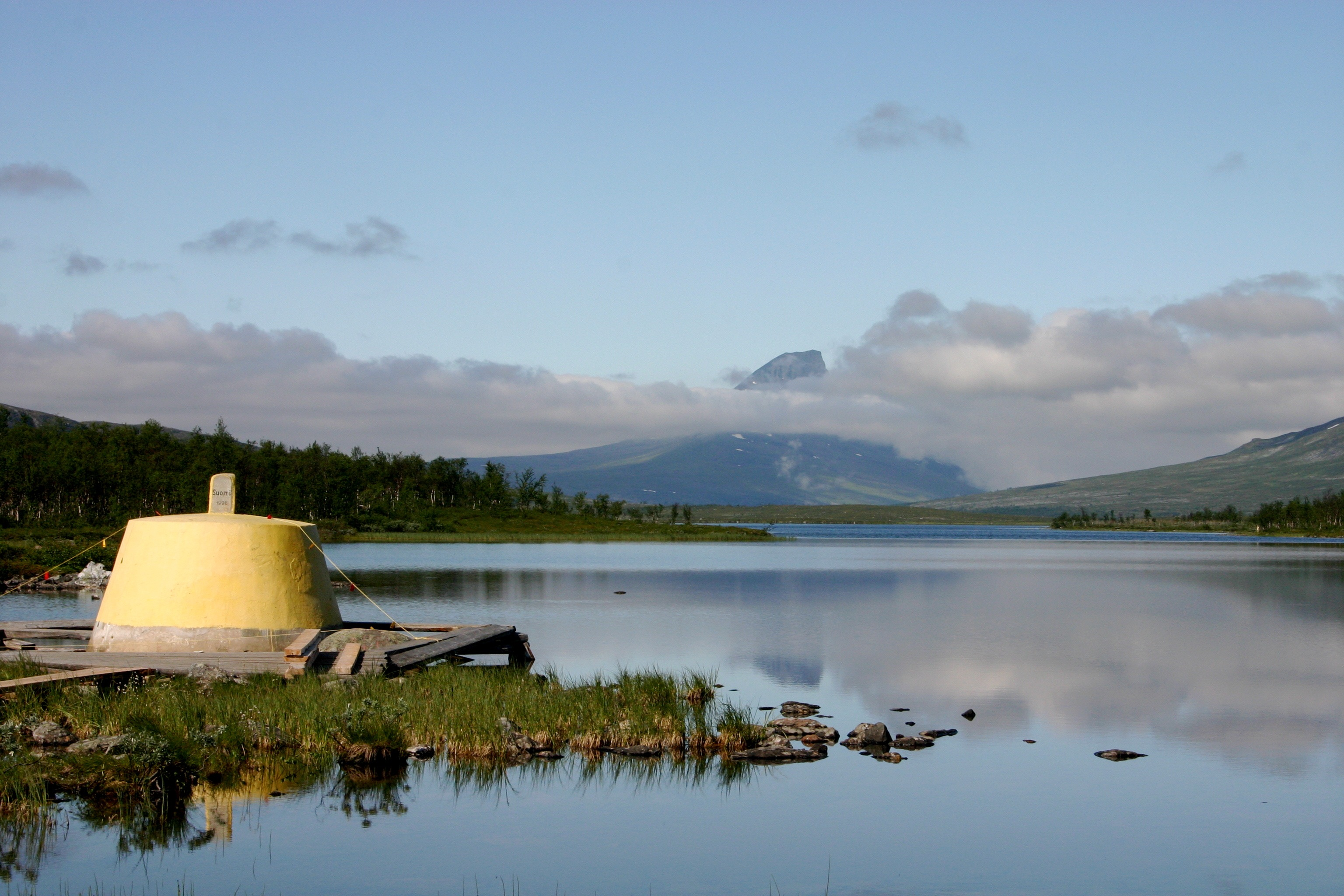 The tripoint monument from Norway, Sweden and Finland (Treriksröset) in the lake "Goldajärvi" in Lapland Finland